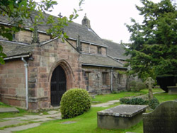 St Peter's Church, South Porch and South Aisle